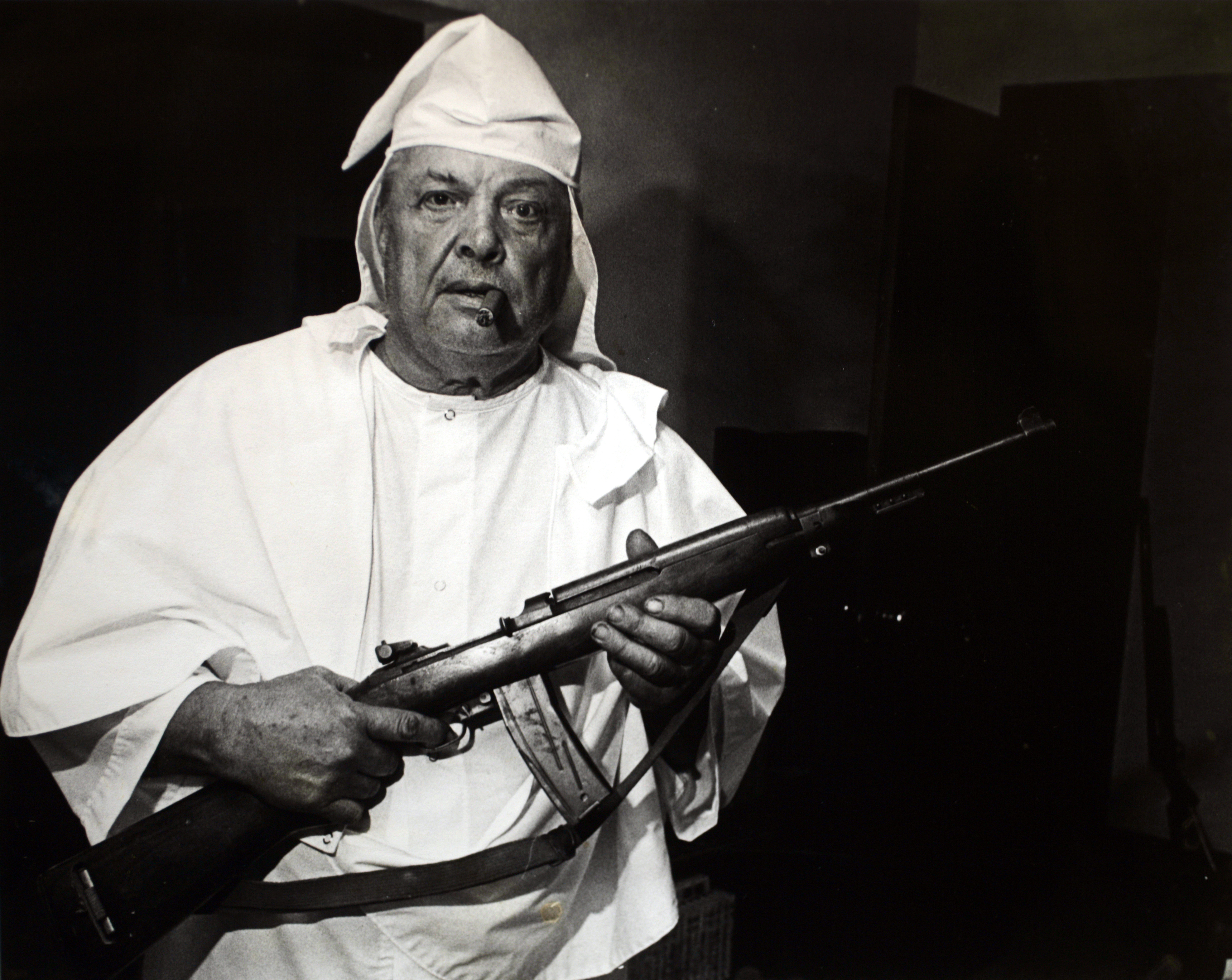 In this photo shot October 1987 in Jackson County, Ohio. Farmer William Donta holds a gun, he had a KKK rally, and a cross burning on his private property in Jackson County, Ohio